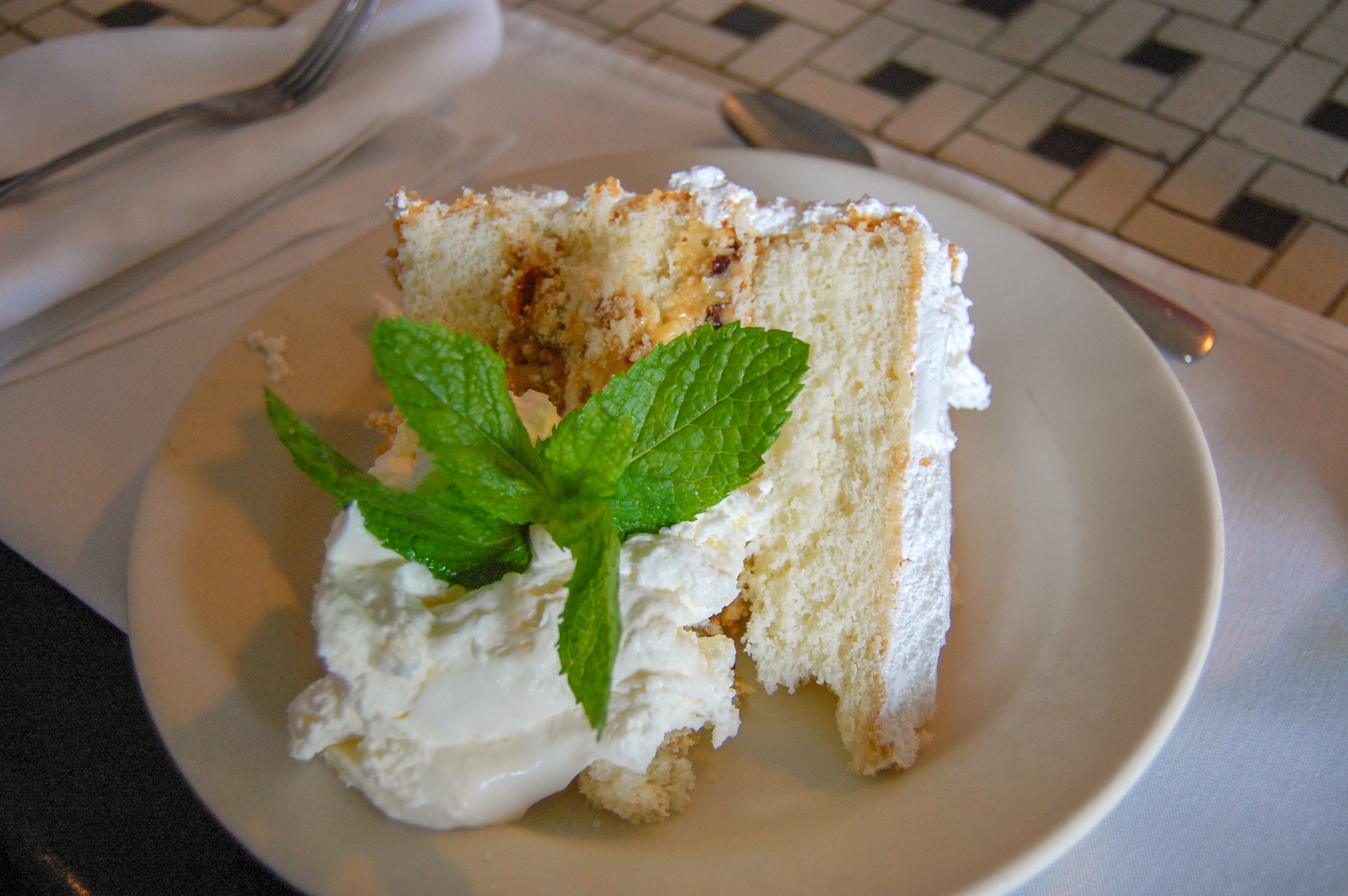 A thick slice of Lane cake, which includes a fruity sweet-sour filling between very light vanilla cake layers.